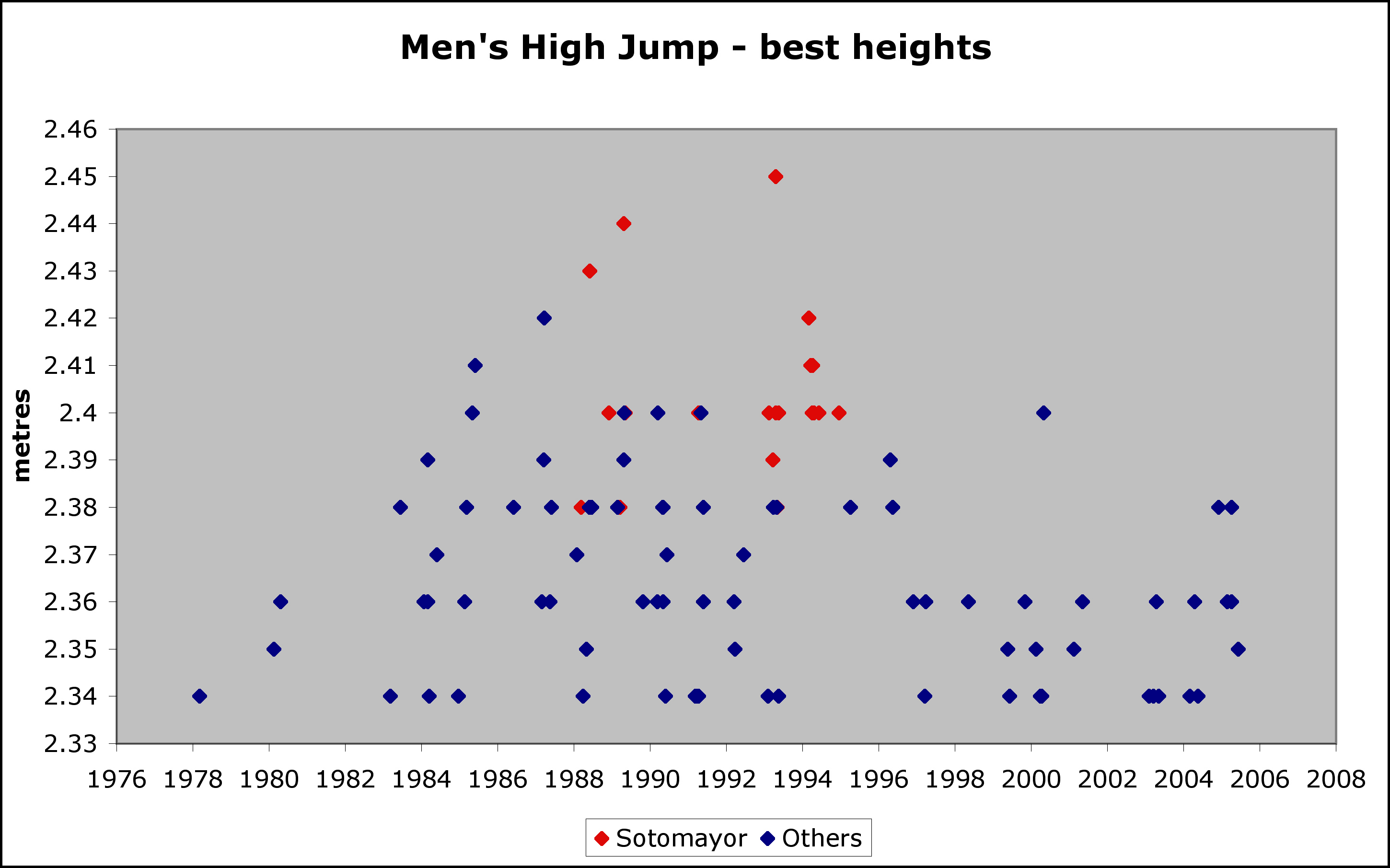 Data extracted from IAAF all-time lists for outdoor highjumps. [1]